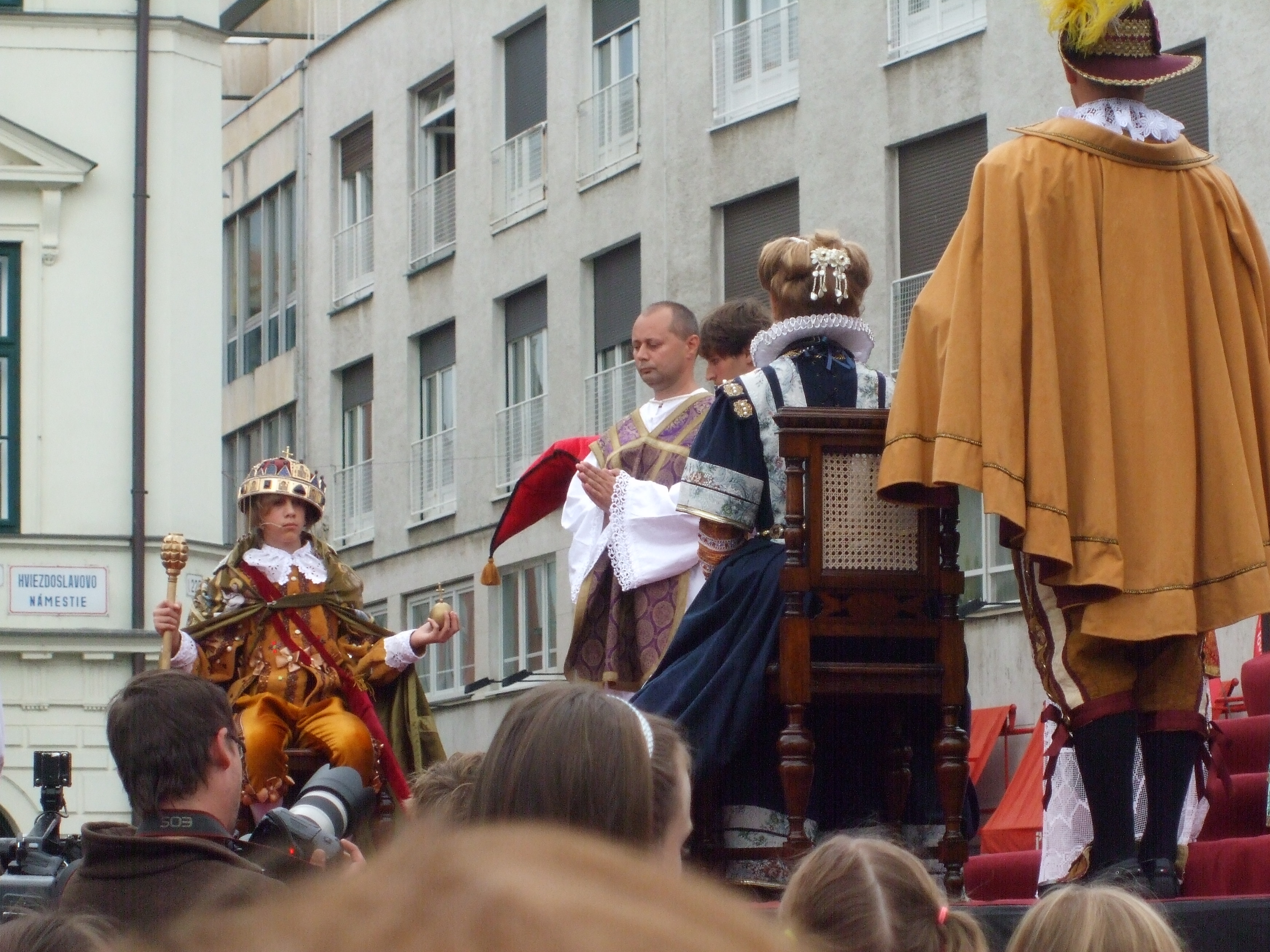 Coronation Celebration in Bratislava (2010/09/05). On the picture is young king Ferdinand IV. (actor Emil Zvarík) and his parent king Ferdinand III. and queen Maria Anna of Spain (actor Filip Tuma and actress Ivana Surovcová).